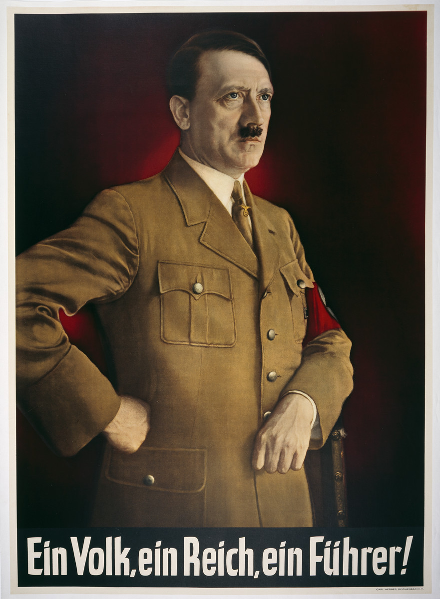 Poster of Hitler standing with the headline "Ein Volk, ein Reich, ein Fuehrer" (One People, one Reich, one Fuehrer!). Original painting by Heinrich Knirr 1935-1936, based on a photograph by Heinrich Hoffman from 1935. Hitler approved the image and it was widely used on Nazi propaganda pieces and was very popular. The slogan Ein Volk, ein Reich, ein Fuhrer was one of the central slogans used by Hitler and the Nazi Party. Nazi propaganda portrayed their leader (Fuhrer) as the living embodiment of the German nation and people. This slogan reinforced the cult of Hitler and the sense of destiny that the Party claimed made him the savior of Germany and father of the German people.